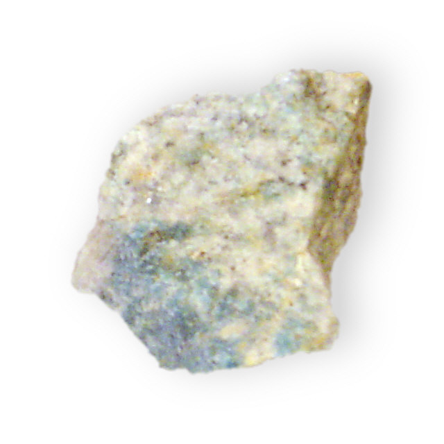 These mineral images are free to use how you wish.